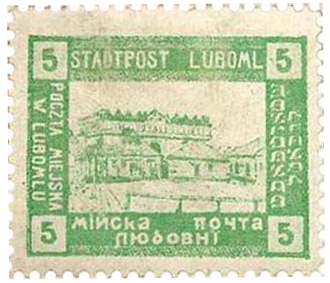 Stamp of Luboml. Synagogue, 1919